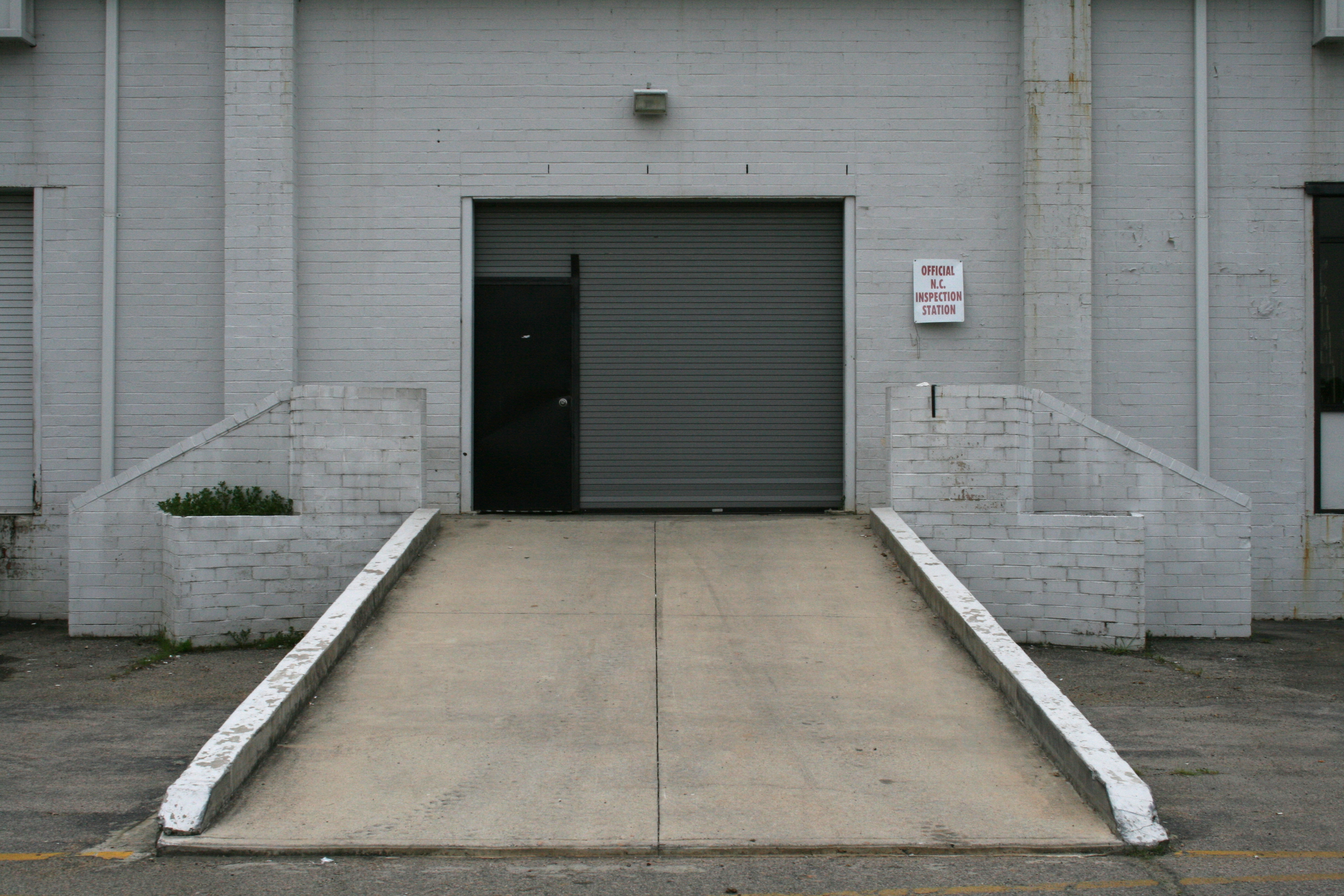 Composite garage door and ramp in Durham, North Carolina.